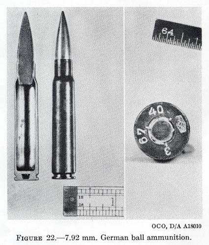 German 7.92x57mm sS 198 gr FMJBT